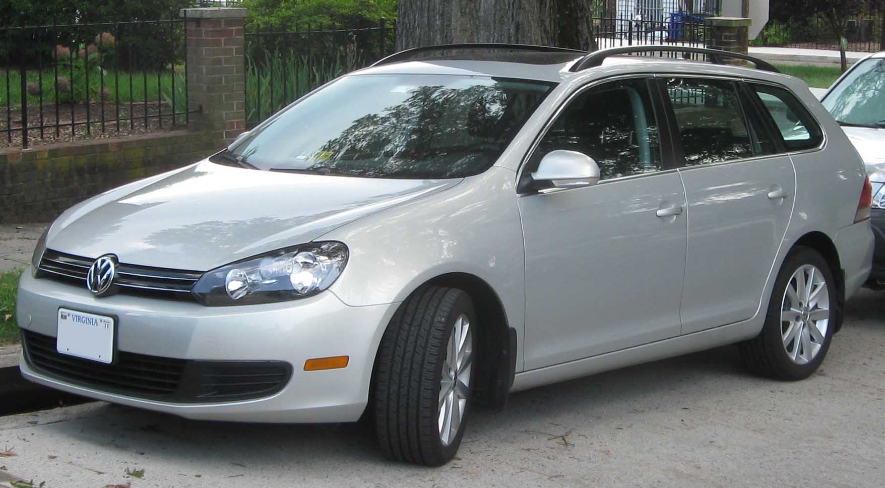 2010 Volkswagen Jetta TDI Sportwagen photographed in Washington, D.C., USA.